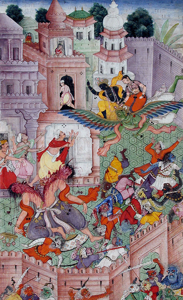 Series Title: Genealogy of Krishna Suite Name: Harivamsha Display Artist: Artist Unknown Creation Date: ca. 1585-1590 Display Dimensions: 11 27/32 in. x 7 1/8 in. (30.1 cm x 18.1 cm) Credit Line: Edwin Binney 3rd Collection Accession Number: 1990.286 Collection: The San Diego Museum of Art